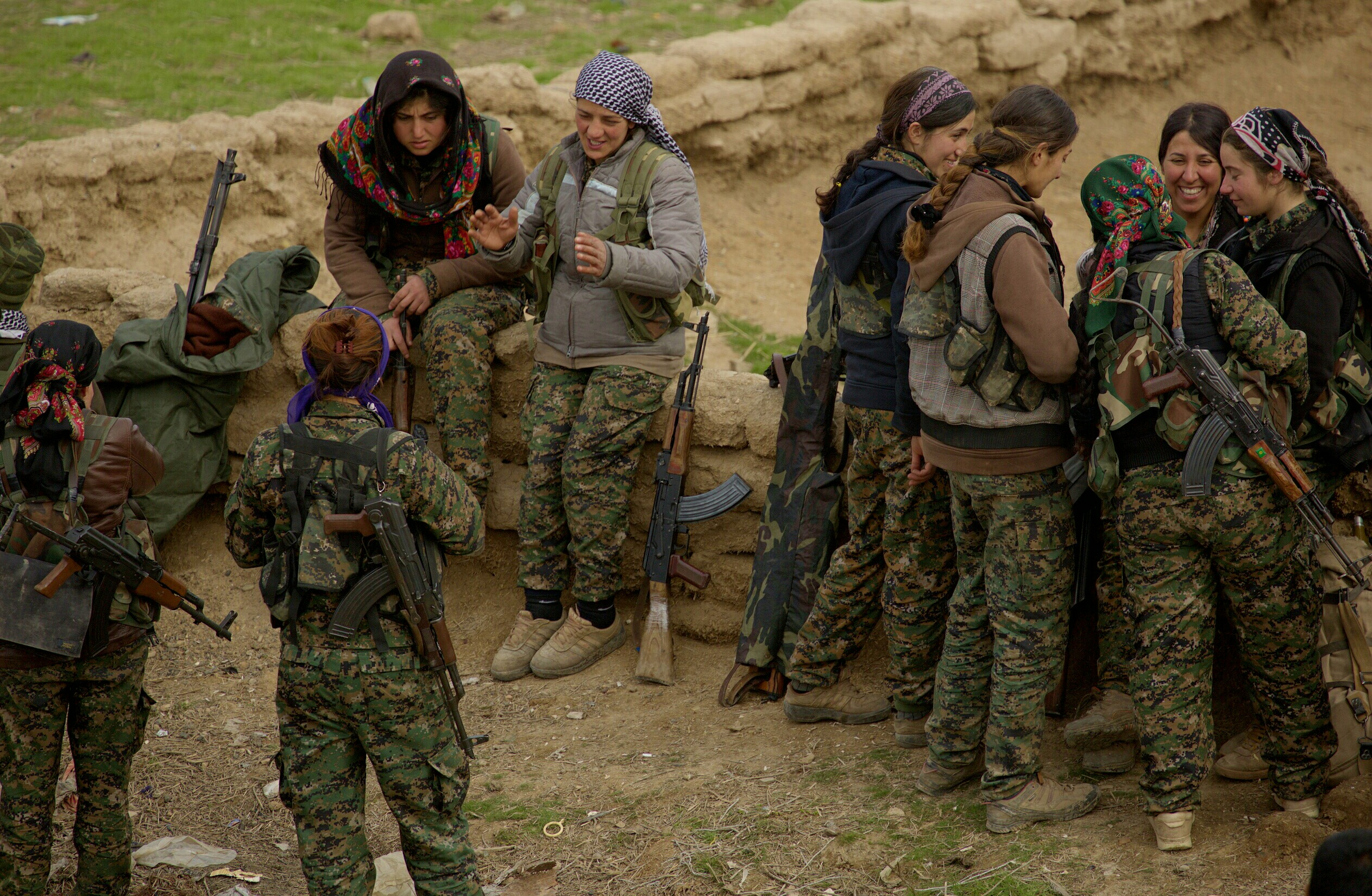 A small group of YPJ fighters relaxing together